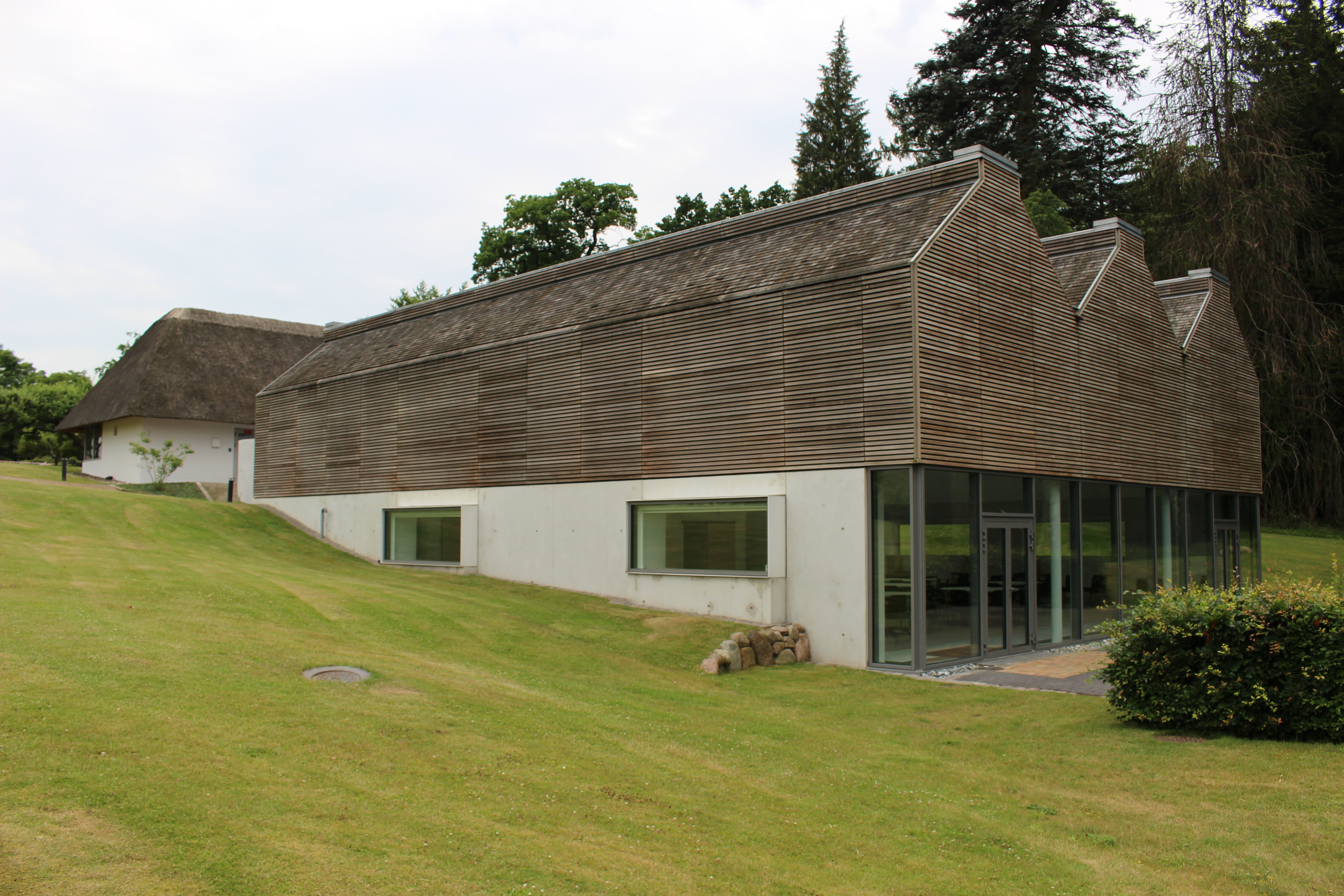 Marienborg Pavilion seen from East and from "below", Midsummer 2016.